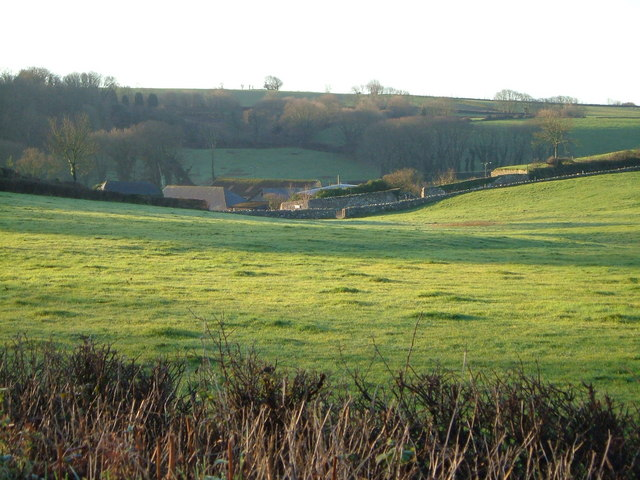 Hareston Farm The farm is tucked into a shallow side-valley off the Silverbridge Lake valley. Seen here across a field from the lane between Blackpool and Hareston Cross.